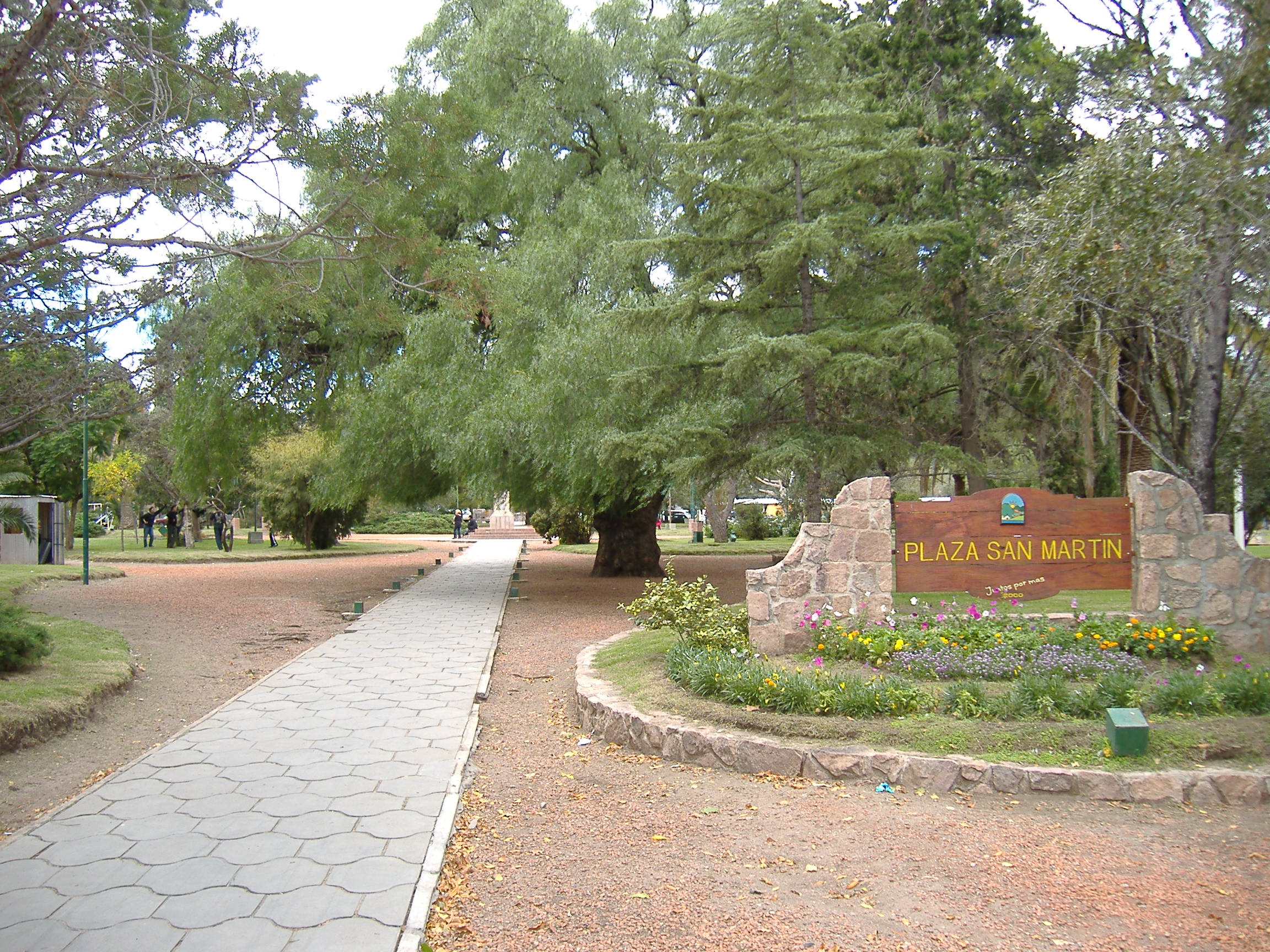 Plaza San Martín, the main urban square in the small city of Capilla del Monte, province of Córdoba, Argentina.